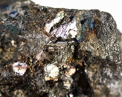 Aramayoite Locality: Animas Mine, Atocha-Quechisla District, Sud Chichas Province, Potosí Department, Bolivia (Locality at ) Size: 6.6 x 5.0 x 2.9 cm. Aramayoite is a very rare silver sulfide species containing tin, and bismuth. This is material from the type locality from which it was described in 1926, collected only a few years later in 1929-1930 on the fourth Vaux-family-sponsored mineralogical expedition to South America. This is a rich sample of silver and tin ore which has a vug of pocket crystals and also exposed, flay-laying embedded crystals of aramayoite to 8mm which show metallic, mirror-like faces on the upper-right part of the specimen. Ex. Philadelphia Academy of Sciences Collection.